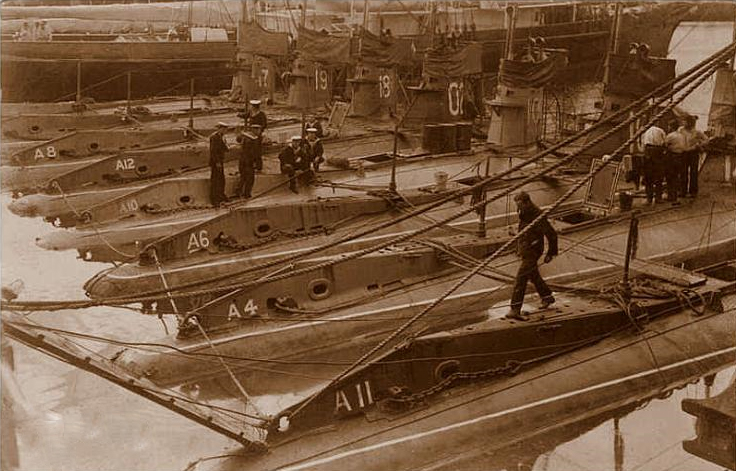 A group of British "A" class submarines. The "A" class was the Royal Navy's first class of British-designed submarines.They were an improvement on the US PLUNGER class. Thirteen submarines of this class were built by Vickers at Barrow-in-Furness between 1902 and 1905. The last was broken up in 1920. Old postcard from this collection.